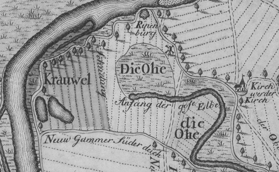 Part of the map "Elbkarte Vierlande bis Blankenese" from Pingeling 1773.